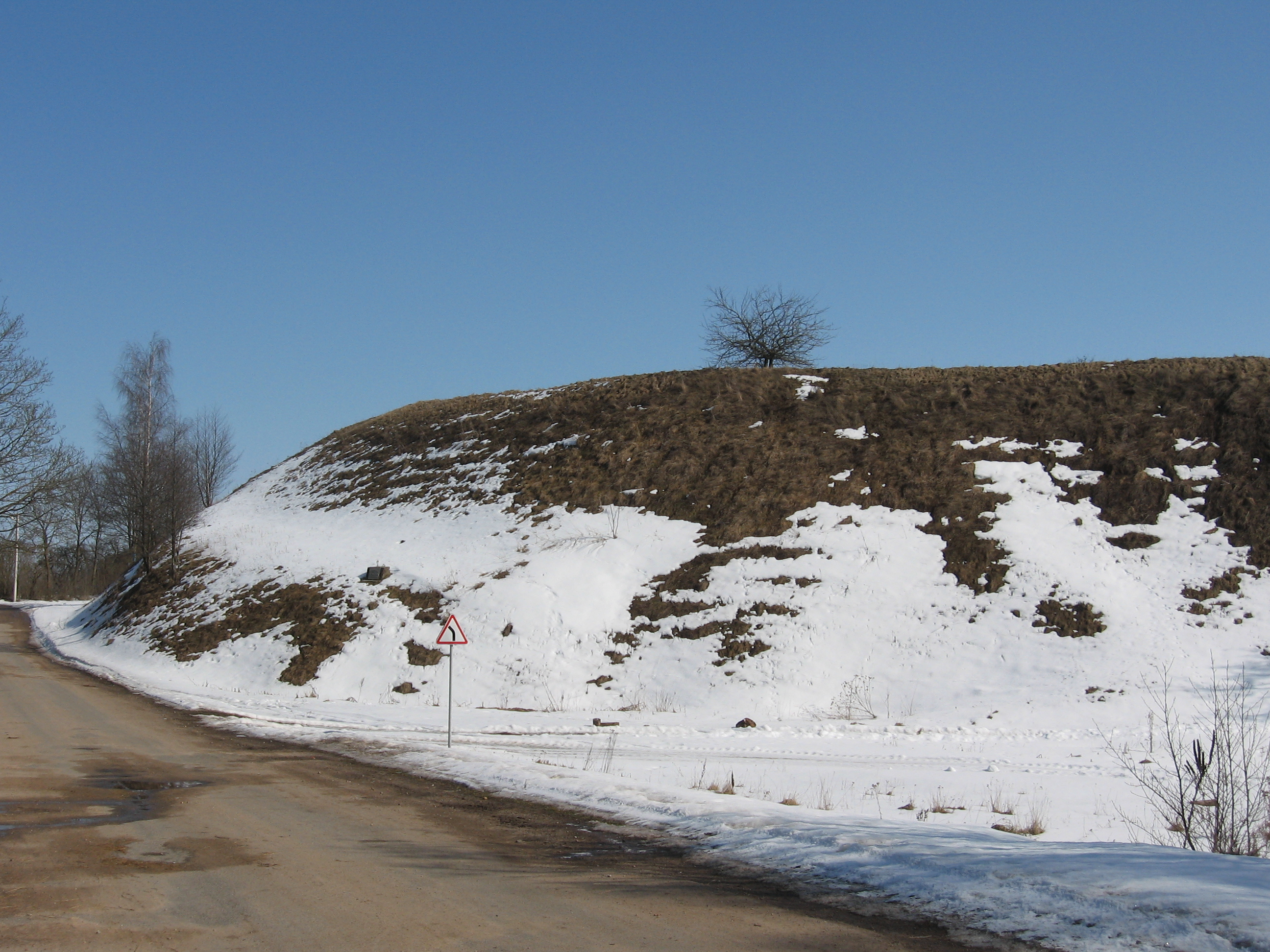 Беларуская (тарашкевіца): Гарадзішча. в. Лоск This is a photo of Belarusian heritage monument. Reference number: 613В000092 ( WLM)